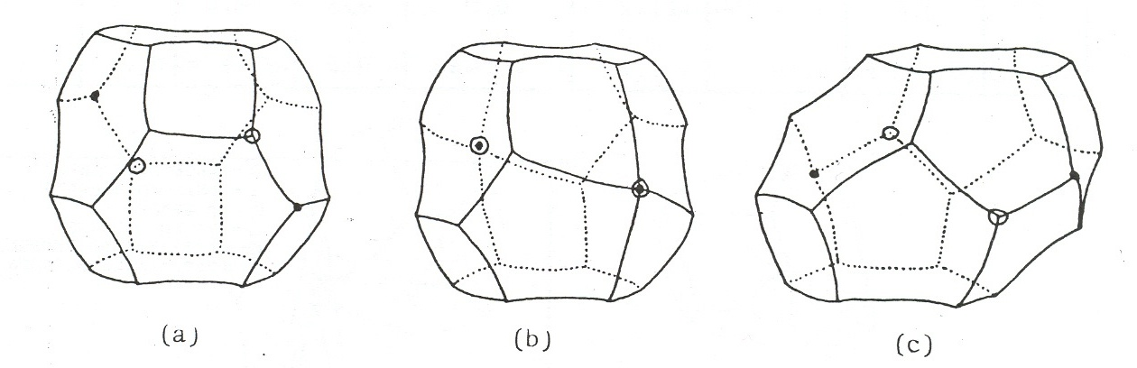 Topological transformation from Lord Kelvin's alpha-tetrakaidecahedron to The Williams Beta-tetrakaidecahedron.